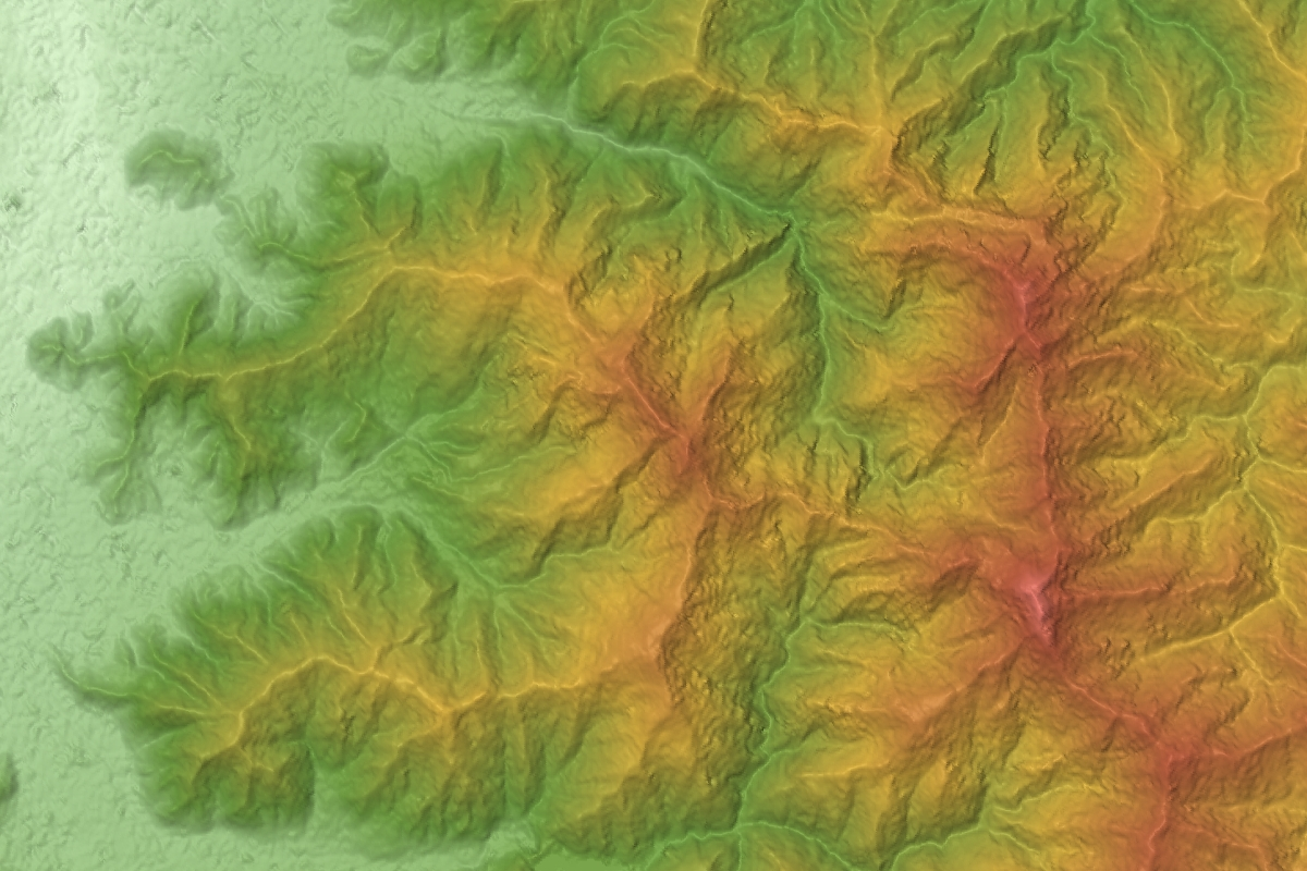 Echigo-Sanzan (Echigo Three Mountains) in Niigata Prefecture, Honshu, Japan.